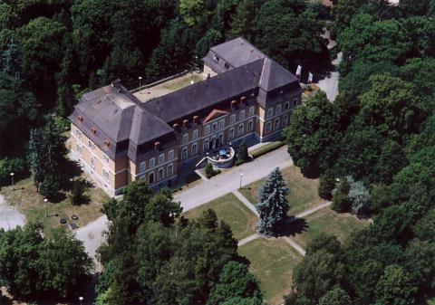 Szilvásvárad Hungary aerialphotography This picture is © copyright Civertan Grafikai Stúdió (Civertan Bt.), 1997-2006.; has been verified that Commons user Civertan is controlled by Civertan Grafikai Stúdió and that it is allowed to relicense content copyrighted to this organization. This work is free and may be used by anyone for any purpose. If you wish to use this content, you do not need to request permission as long as you follow any licensing requirements mentioned on this page.